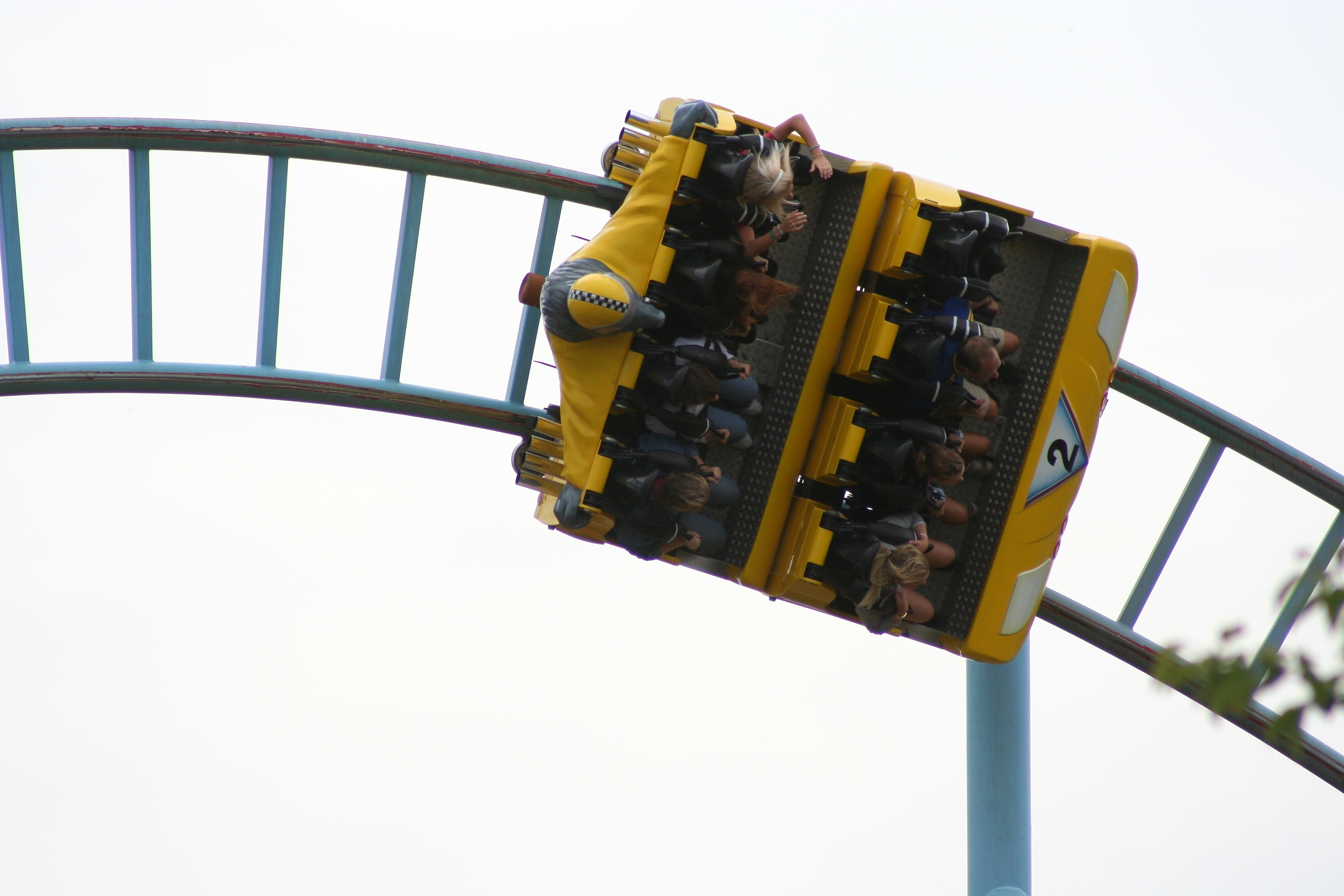 Roller Coaster Vildsvinet at BonBon-Land, Denmark